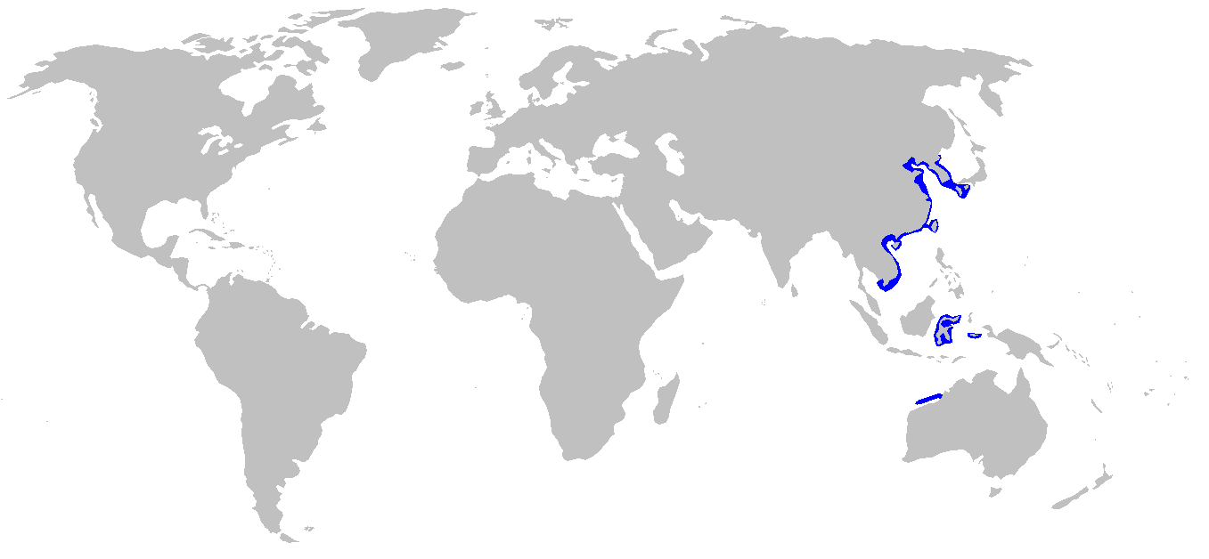 Distribution map for Heterodontus zebra